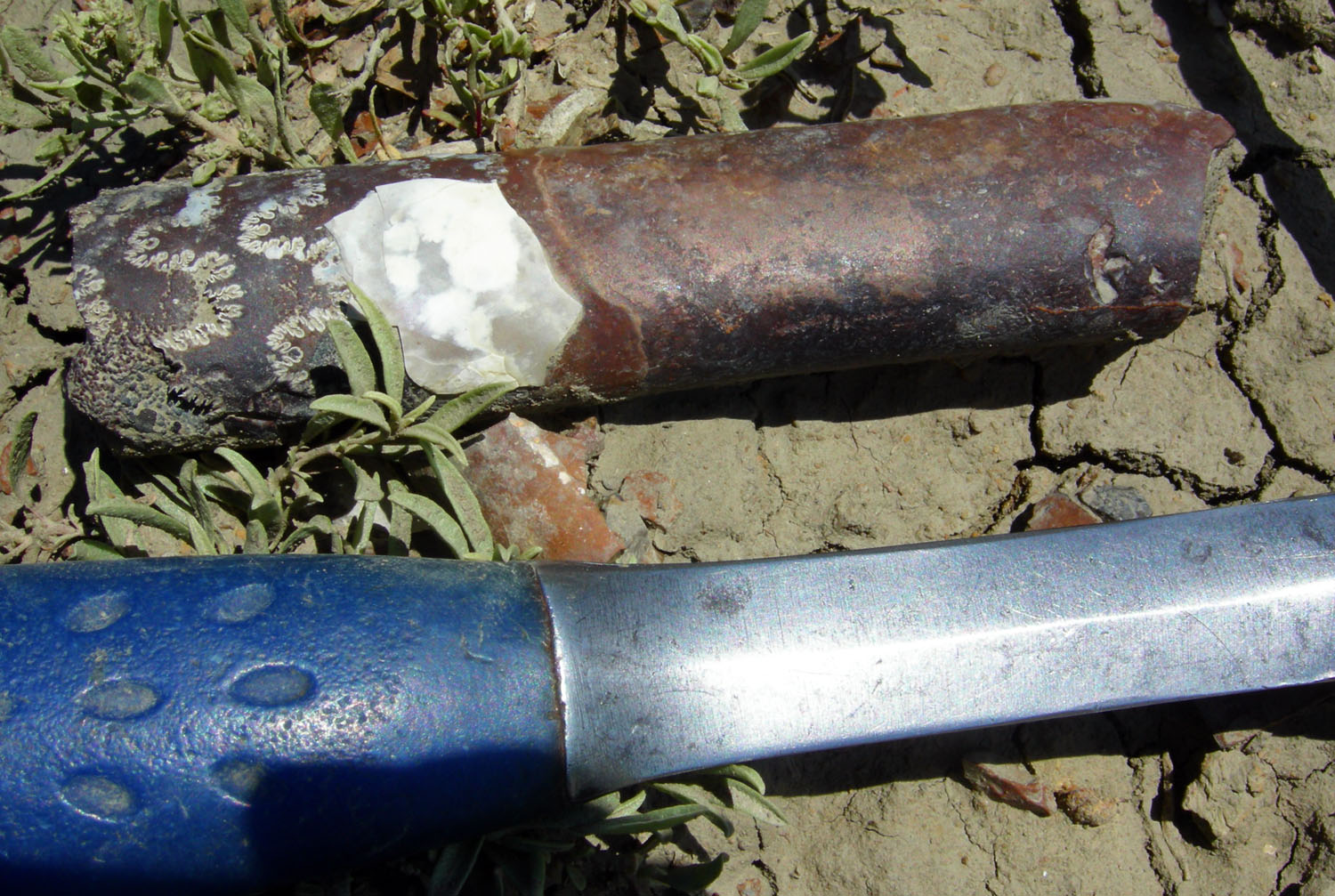 Baculites specimen in the field; Upper Cretaceous, western South Dakota. Note the tiny fecal pellets in the matrix between the septa on the left end.